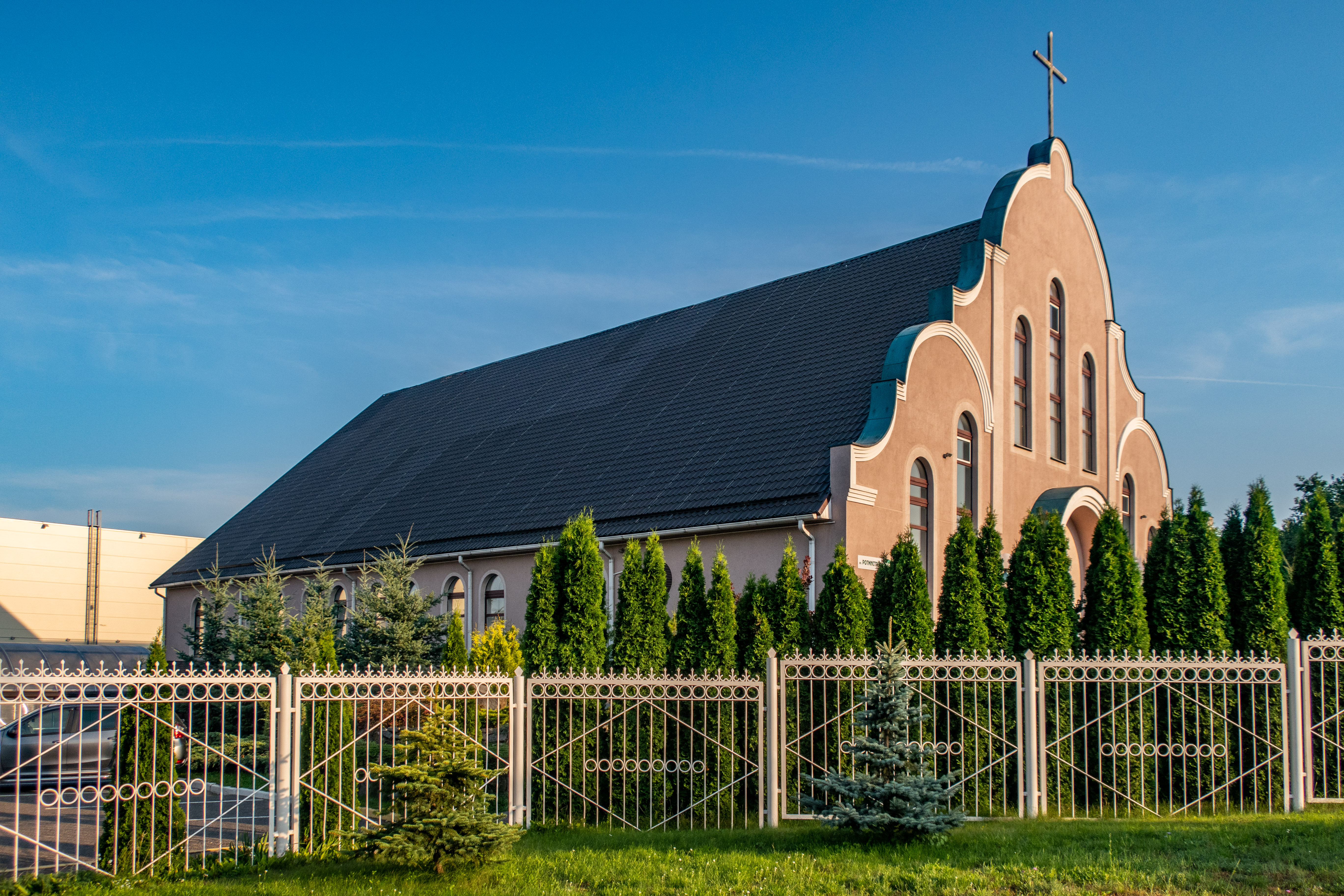 Bethany pentecostal church. Rotmistrava street. Minsk, Belarus